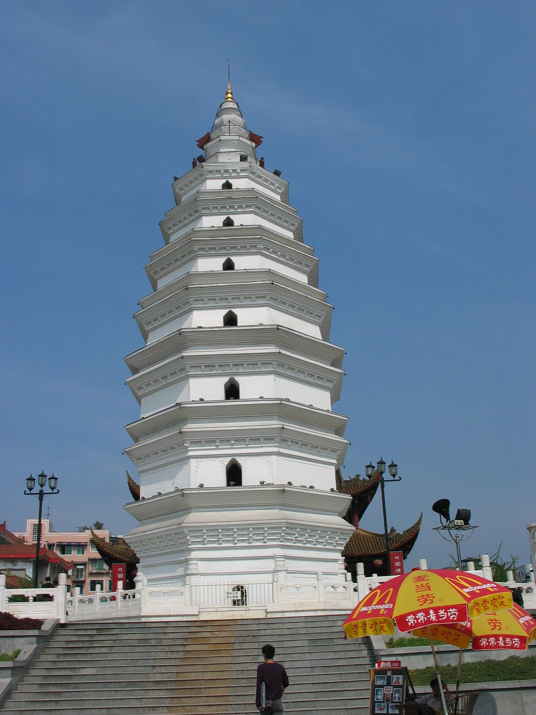 Bao'en (Gratitude) Pagoda, Luzhou, Sichuan, China